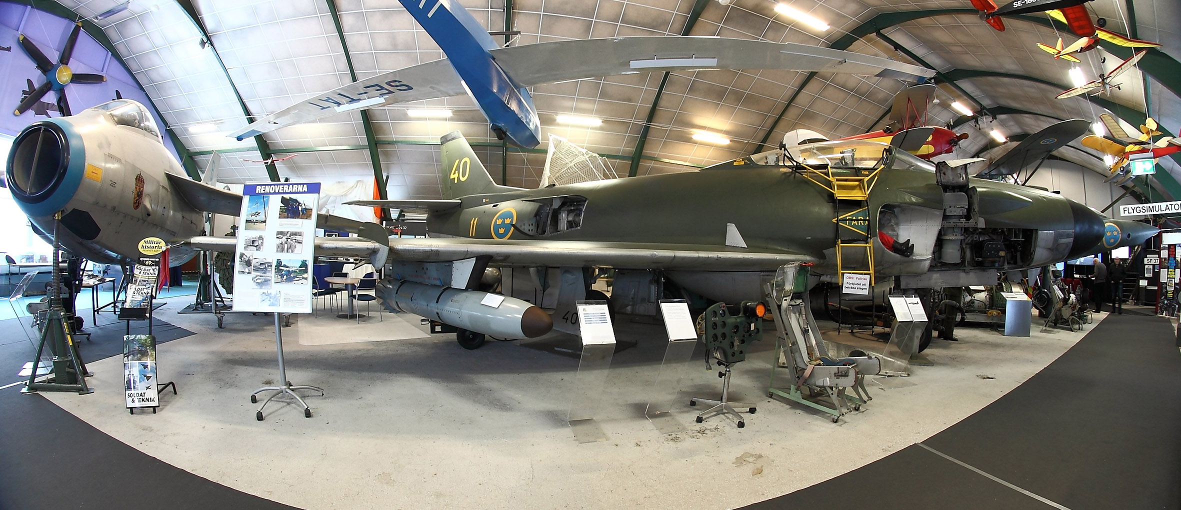 Interior from F11 Museum showing S 29 and S 32.